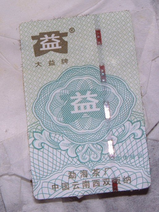 Protection Ticket from Menghai 7742 bingcha, 2006 Production. Prominently features Dayi brand logo.